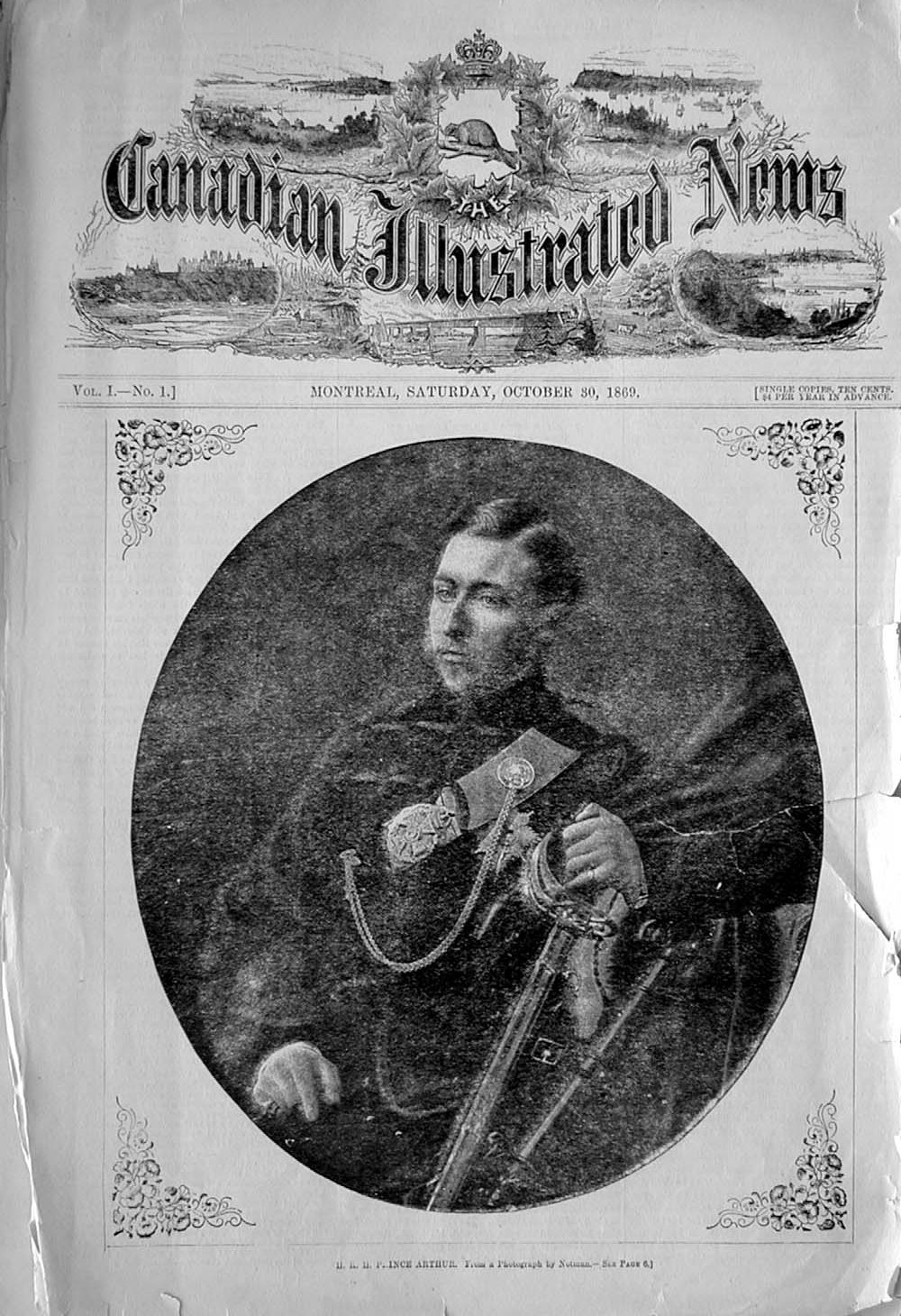 The first known commercially printed halftone photograph. Created by William Leggo for the Canadian Illustrated News.